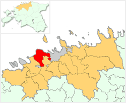 Location map of Harku Commune, Estonia. This image was created by Senzeichi.